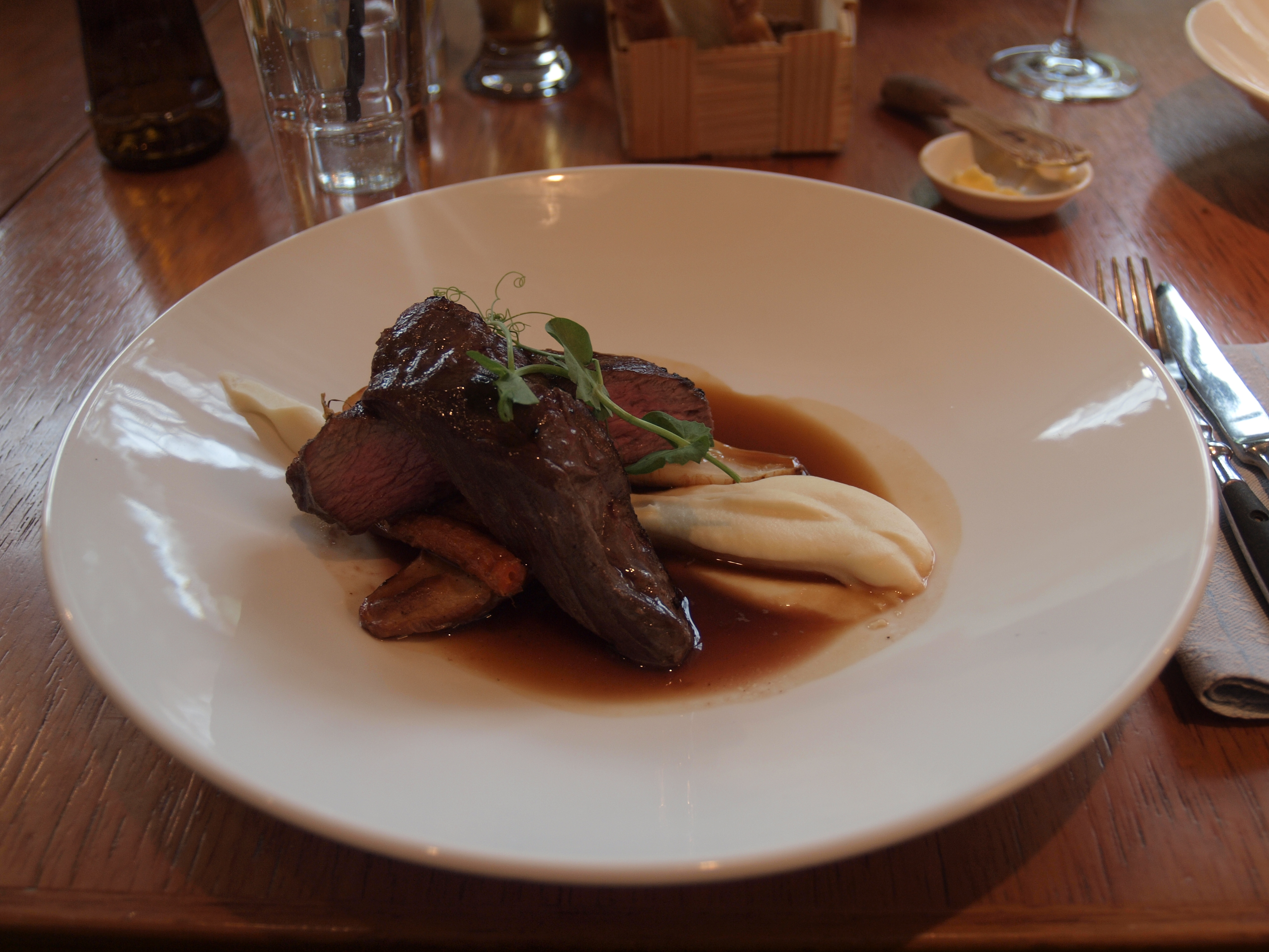 A dish of veal with roasted parsley root, almond potatoes, carrots and celeriac cream, at restaurant Sfäär in Tallinn, Estonia.